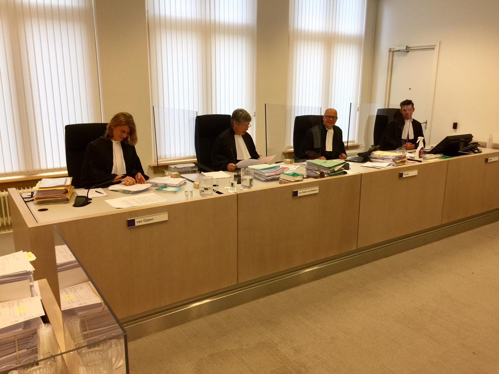 Courtroom in a Dutch law court during the COVID-19 pandemic, with plexiglass partitions between the judges and (not visible) the parties.